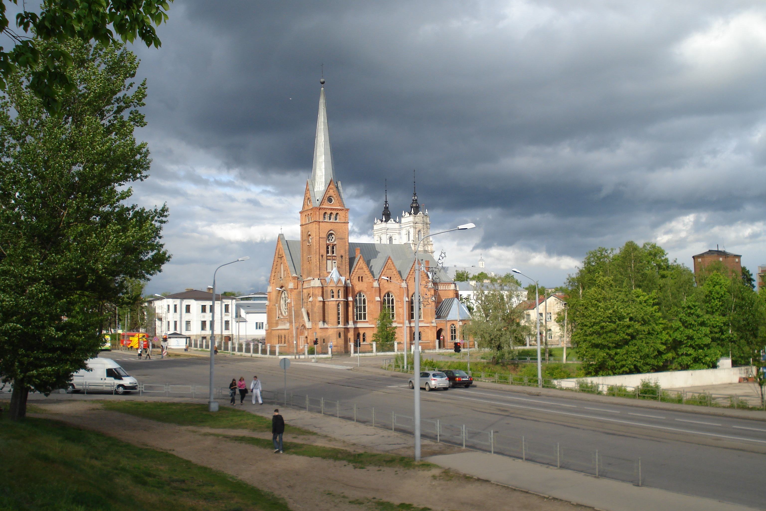 Daugavpils Evangelical Lutheran Cathedral of Martin Luther. Address: 18. novembra iela at Varšavas iela